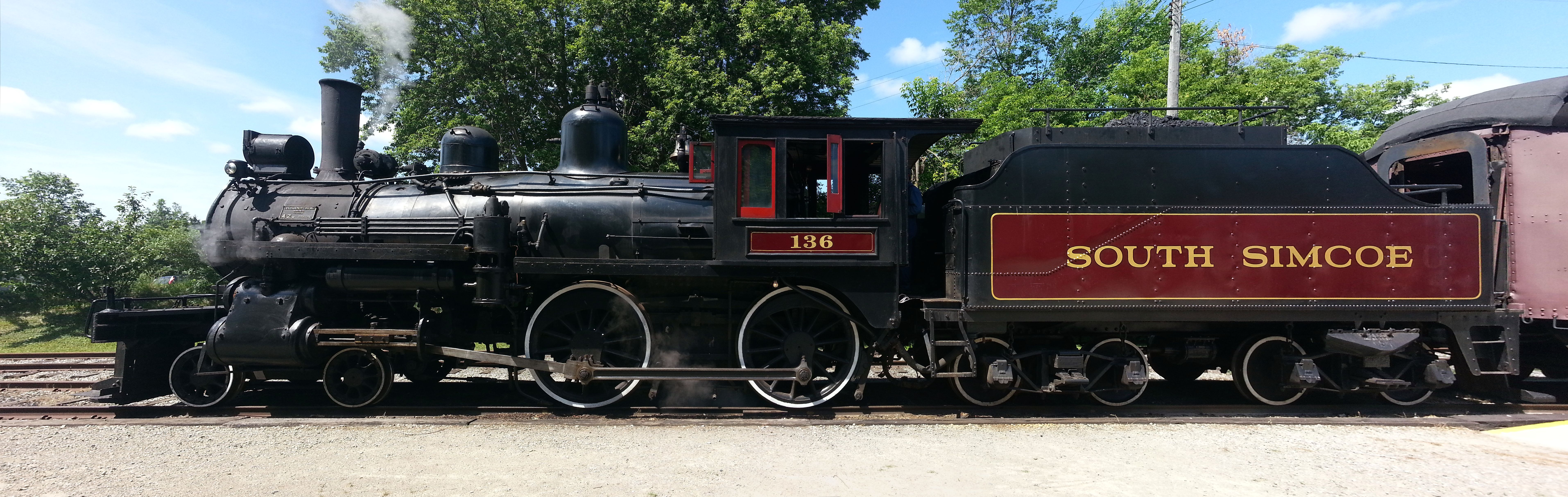 Side view of South Simcoe Railway Steam Locomotive 136. Here it is waiting in between passenger rides.